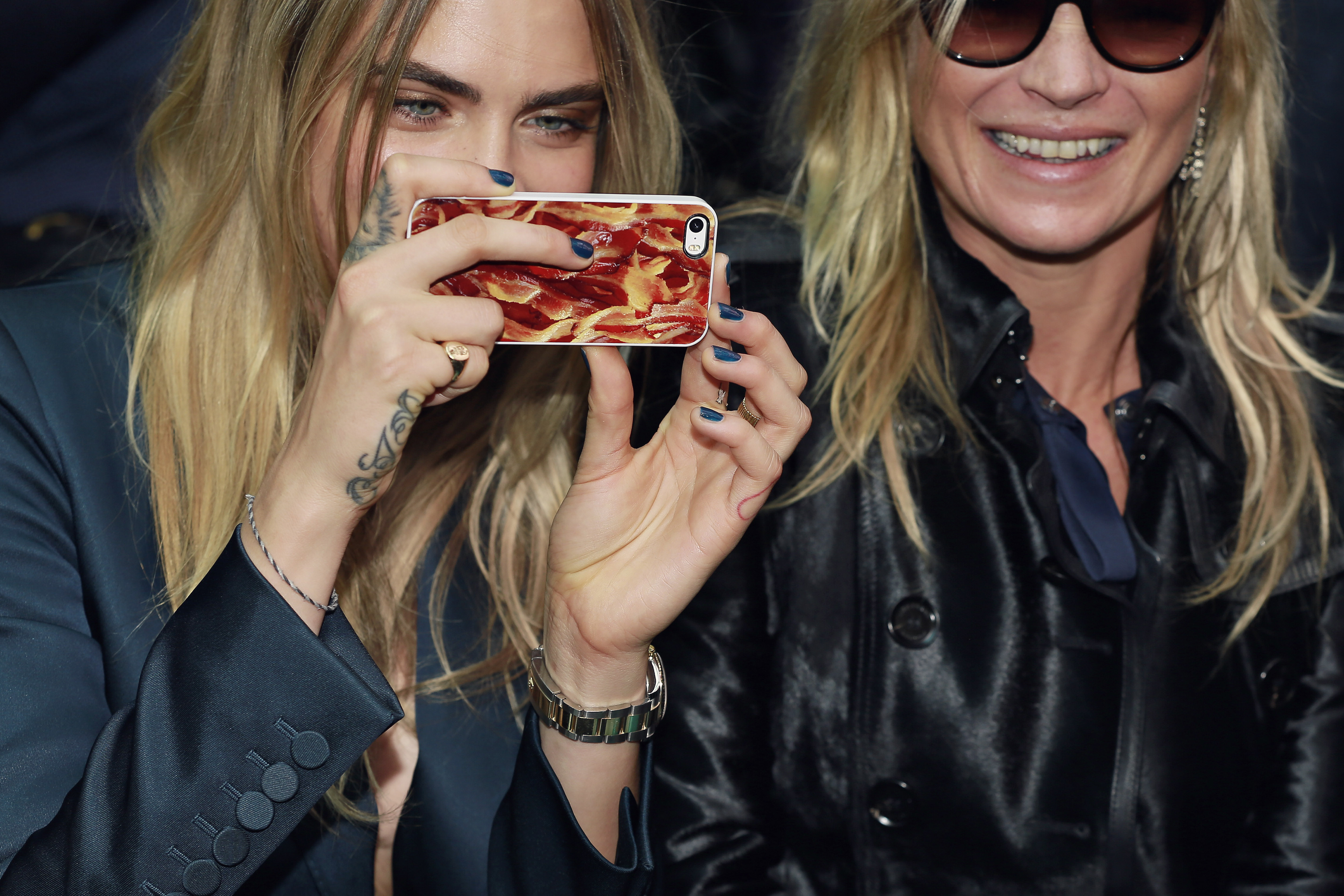 Selfie